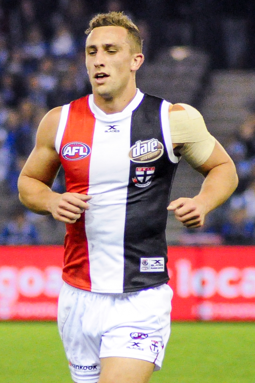 Luke Dunstan during the AFL round thirteen match between North Melbourne and St Kilda on 16 June 2017 at Etihad Stadium in Melbourne, Victoria.